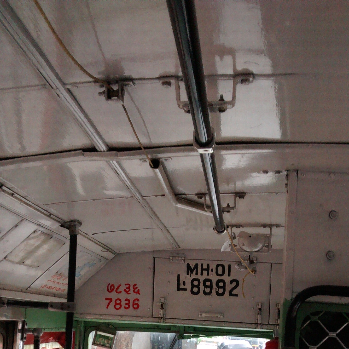 Bell pull in a BEST bus.